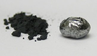 Rhenium diboride, formed by heating of boron and rhenium powder